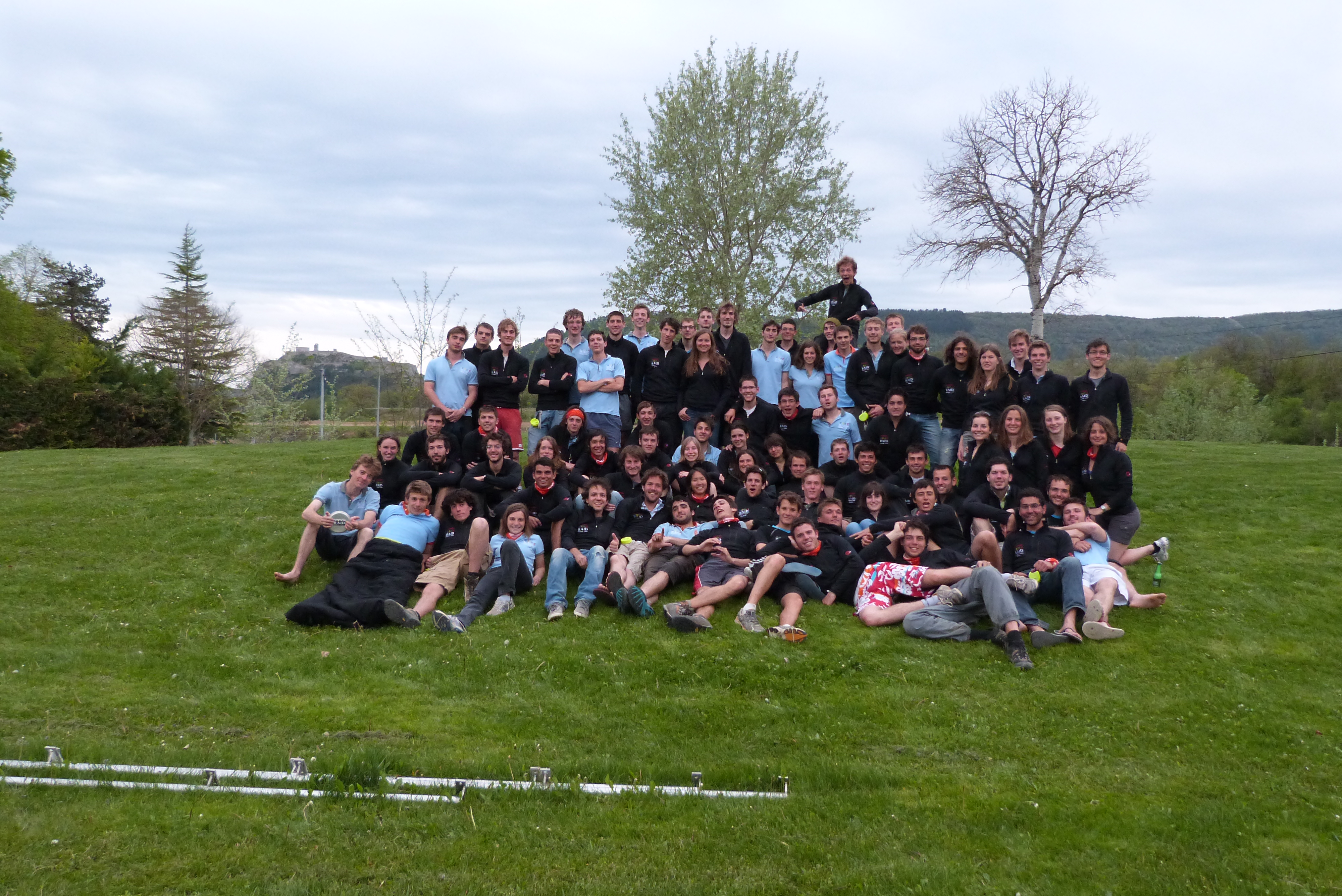 Staff du Raid Centrale Paris 2012